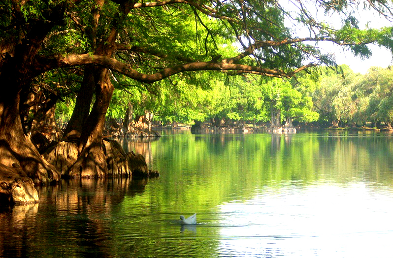 Lake Camécuaro in Lago de Camécuaro National Park. Located in the municipality of Tangancícuaro, of the state of Michoacán, southwestern México. Chavacano de Zamboanga: En el Lago de Camecuaro